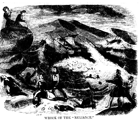 Illustration of the wreck of the East Indiaman Reliance at Merlimont, Pas-de-Calais, France on 12 November 1842.